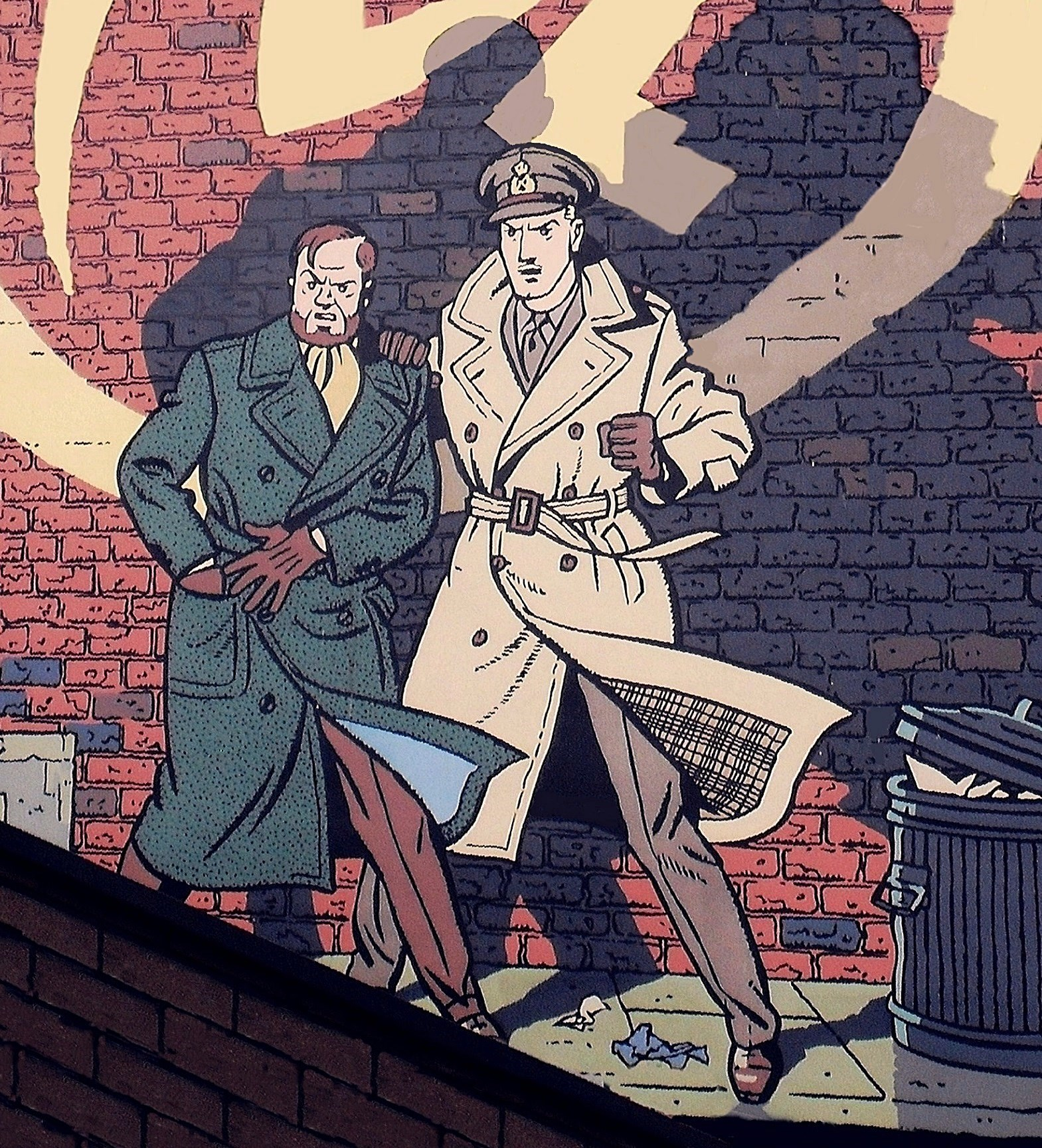 Blake & Mortimer mural painting, by Edgar P. Jacobs. Location: Rue de Houblon 24 (Hopstraat 24), Brussels. It can be observed from the square Jacques Brel. Surface: ±104 m². Realisation: Oreopoulos G. and Vandegeerde D. Year: May-June 2005. Comment: Blake and Mortimer is a Belgian comics series created by the Belgian writer and comics artist Edgar P. Jacobs. In the mural painting Blake and Mortimer are standing in front of a wall with the famous yellow signal which causes panic in the streets of London.